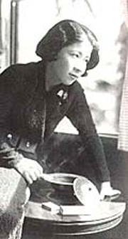 Fumiko Hayashi (31 December 1903 – 28 June 1951).